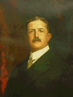 Simeon Selby Pennewill of Delaware (1867-1935) artist: Robert Hinckley, canvas; 26" x 31" Courtesy of Delaware Department of State, Division of Historical and Cultural Affairs. Collection of the Delaware State Museums. Hall of Governors Portrait Gallery.